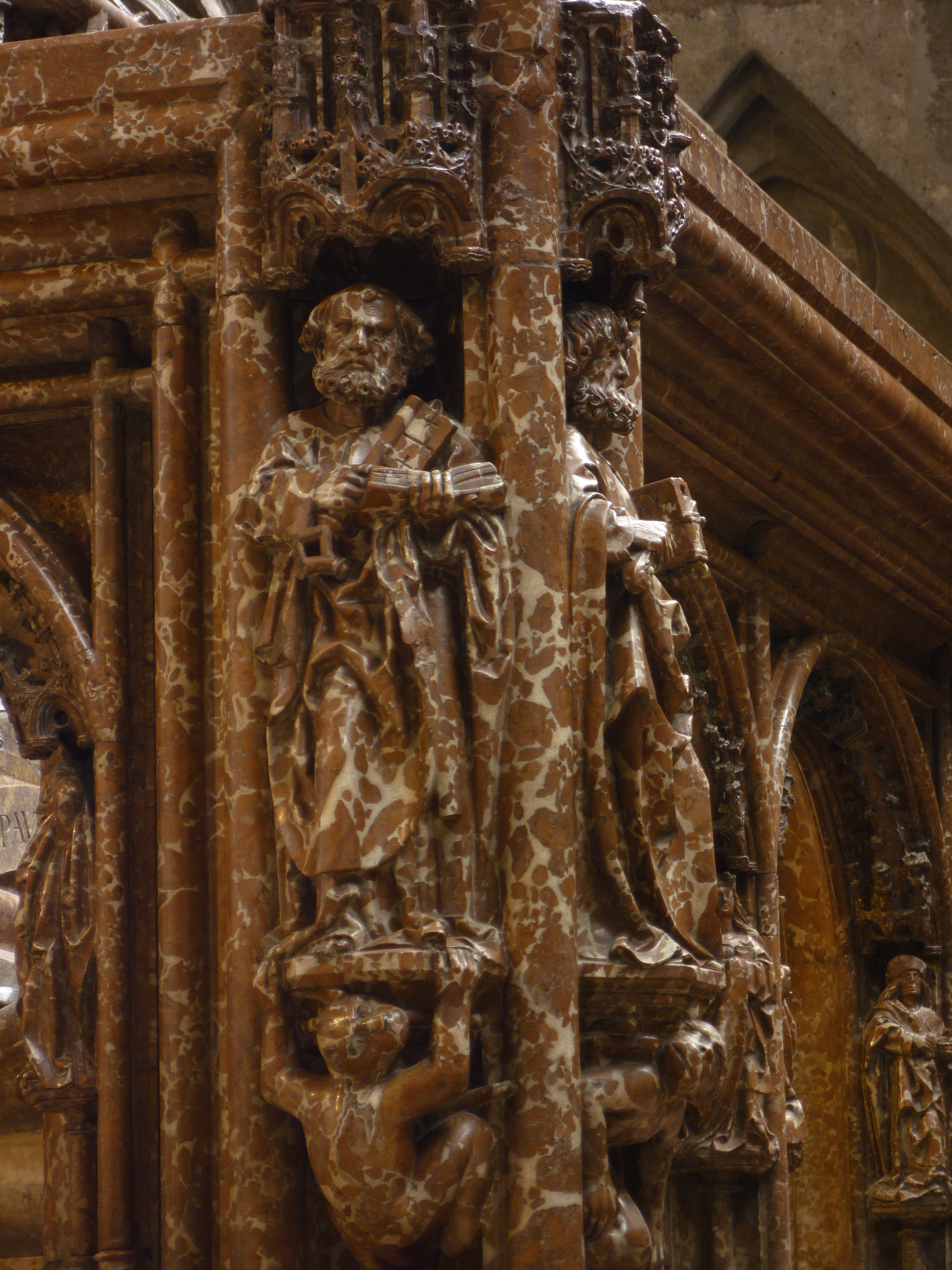 Apostles at the balustrade of the tomb of emperor Frederick III